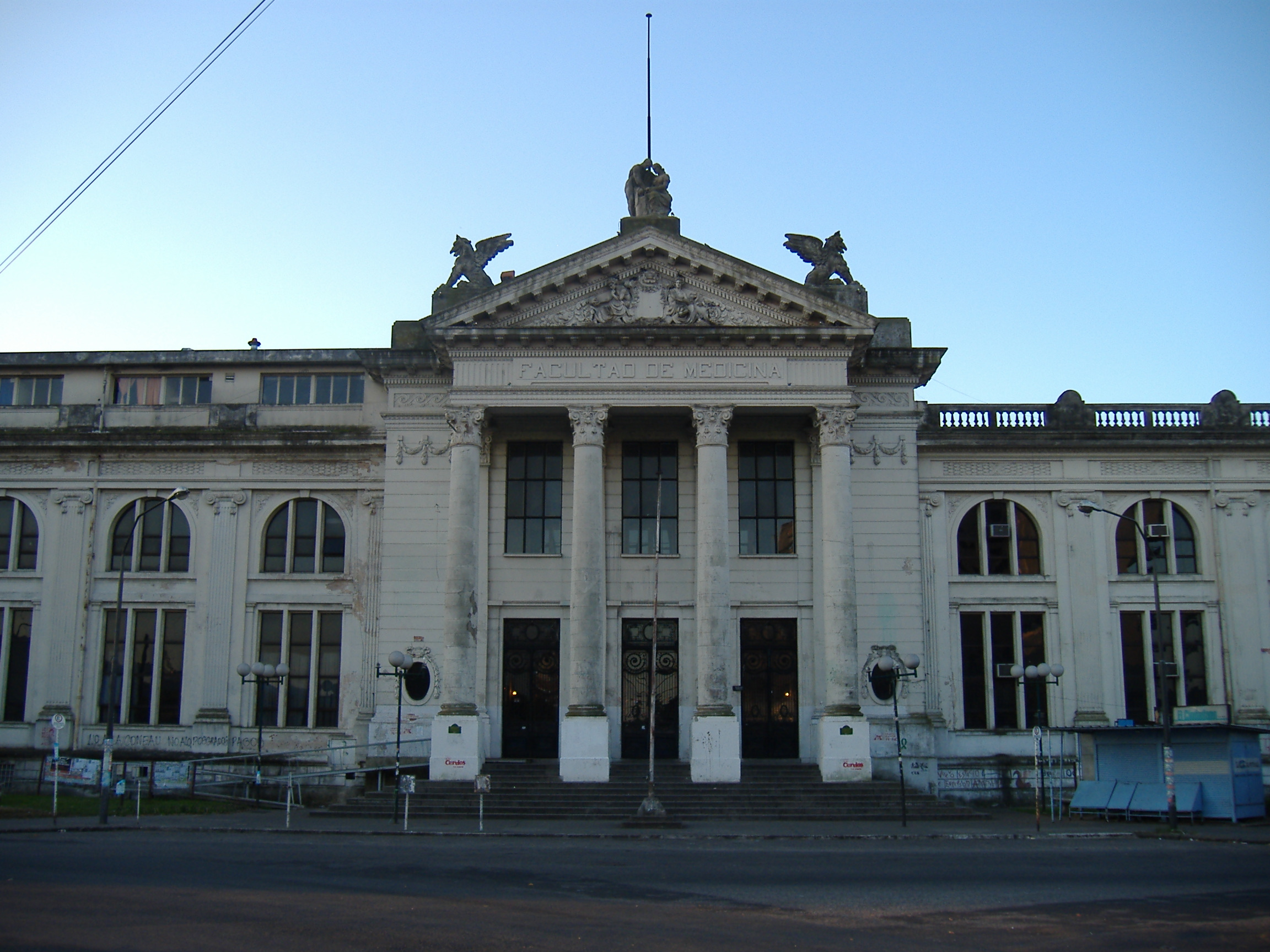 The front facade of the Faculty of Medical Sciences of the National University of Rosario, on Santa Fe St. & Francia Ave.